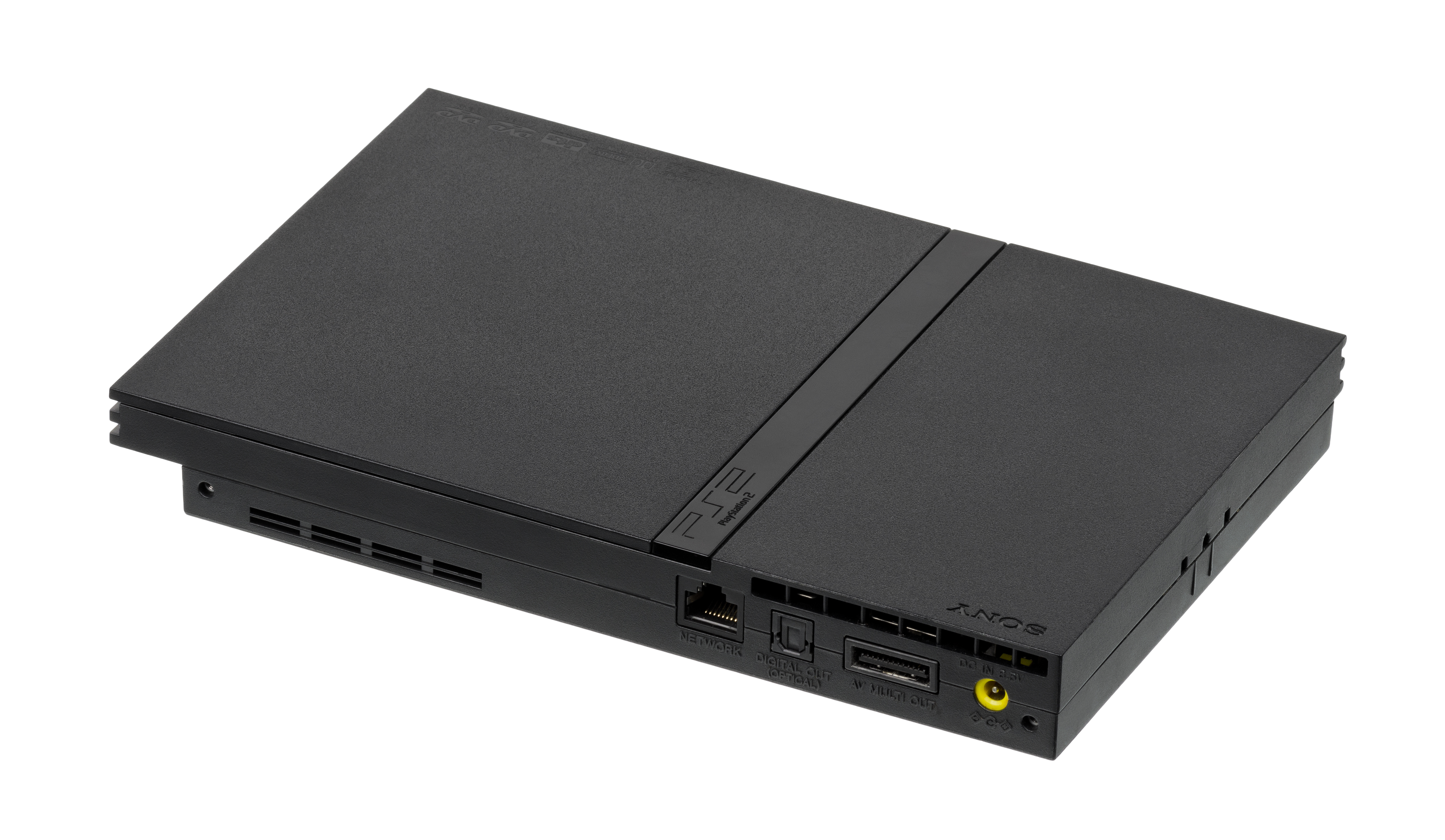 The Sony PlayStation 2 (also known as the "PS2") video game console, first released in 2000. The successor to the enormously successful PlayStation console, Sony's second system continued the trend and surpassed it to become the best-selling consoles of all time. This is a SCPH-30001 model, a version of the first model released (the "fat") that included an expansion bay for a hard drive and network adapter.